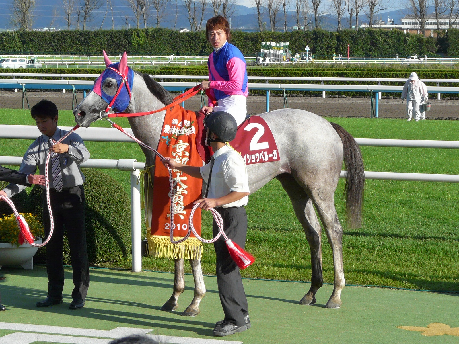 Meisho-Beluga20101010